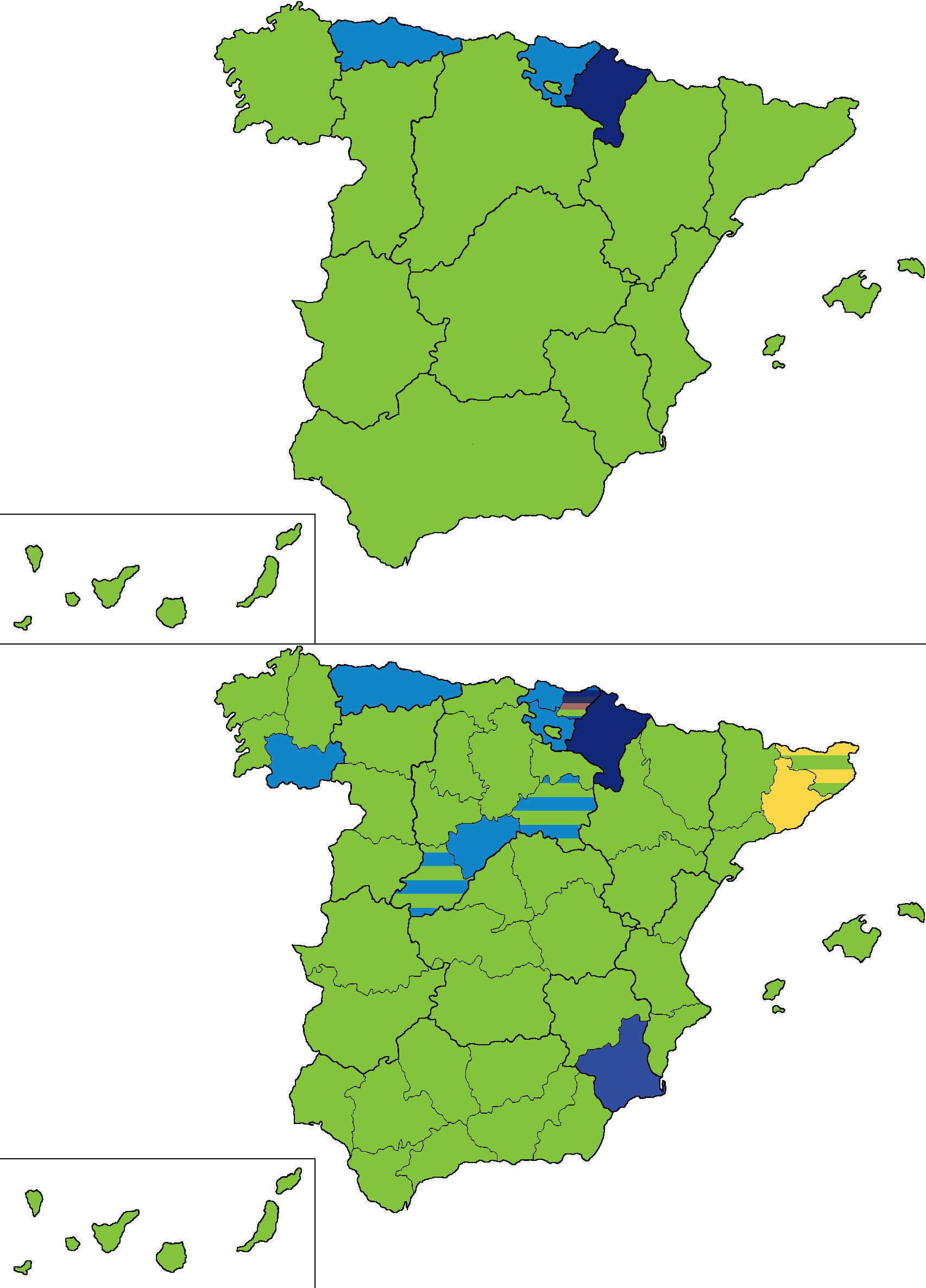 Most voted party in the 1916 Spanish Congress of Deputies election by regions and provinces.